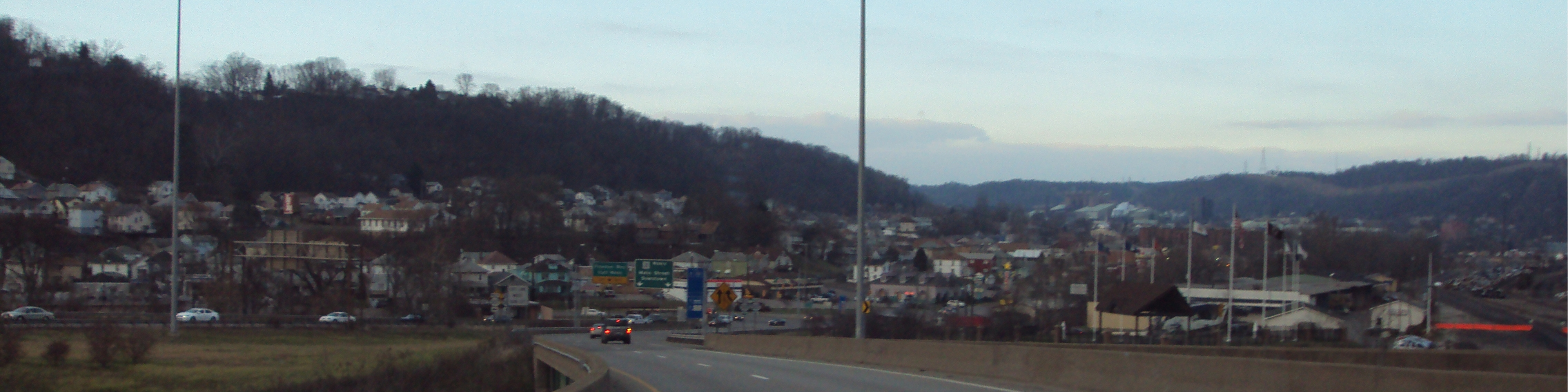 Downtown Weirton, West Virginia, United States.